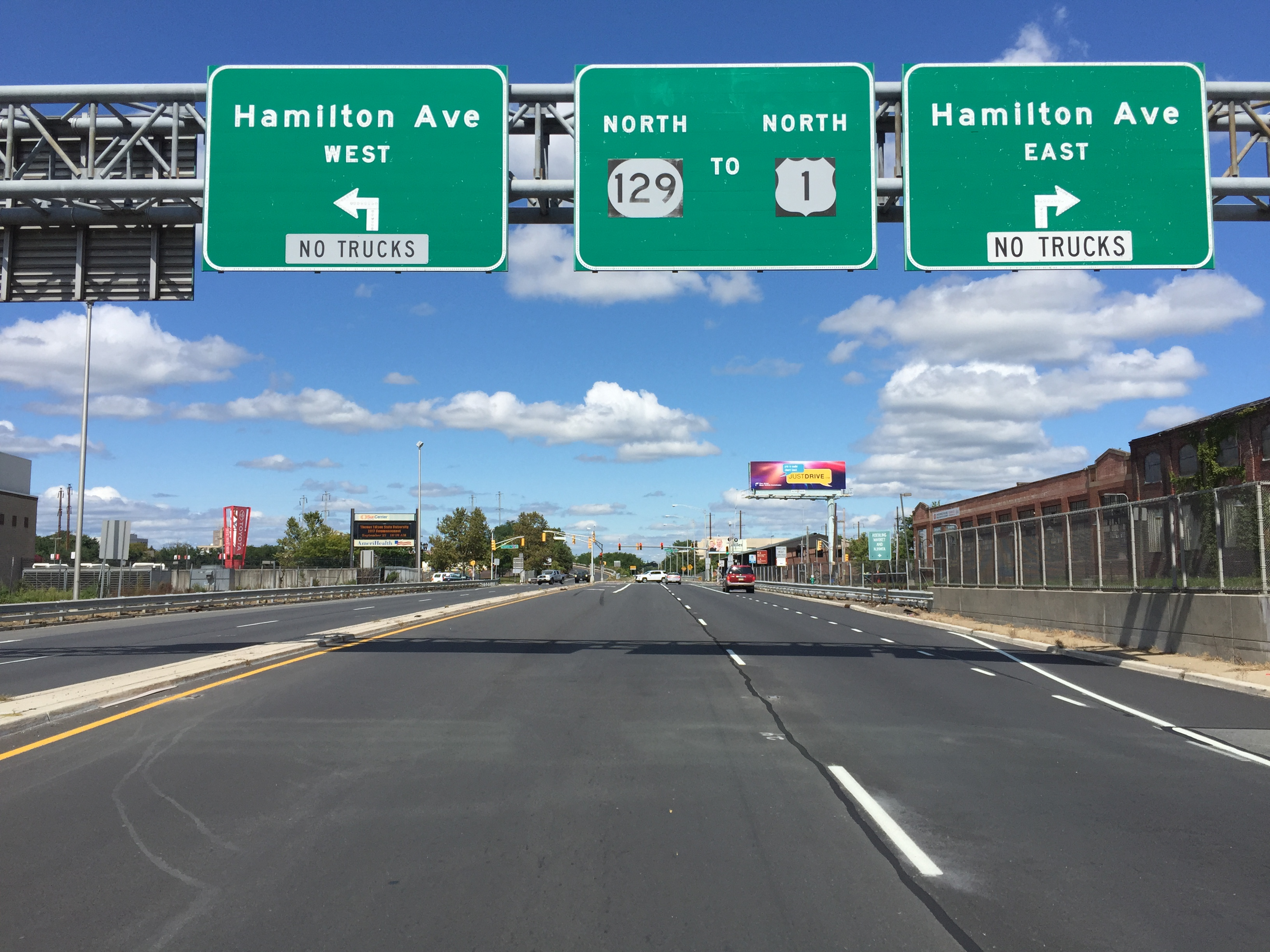 View north along New Jersey State Route 129 (Canal Boulevard) just south of Hamilton Avenue (Mercer County Route 606) in Trenton City, Mercer County, New Jersey